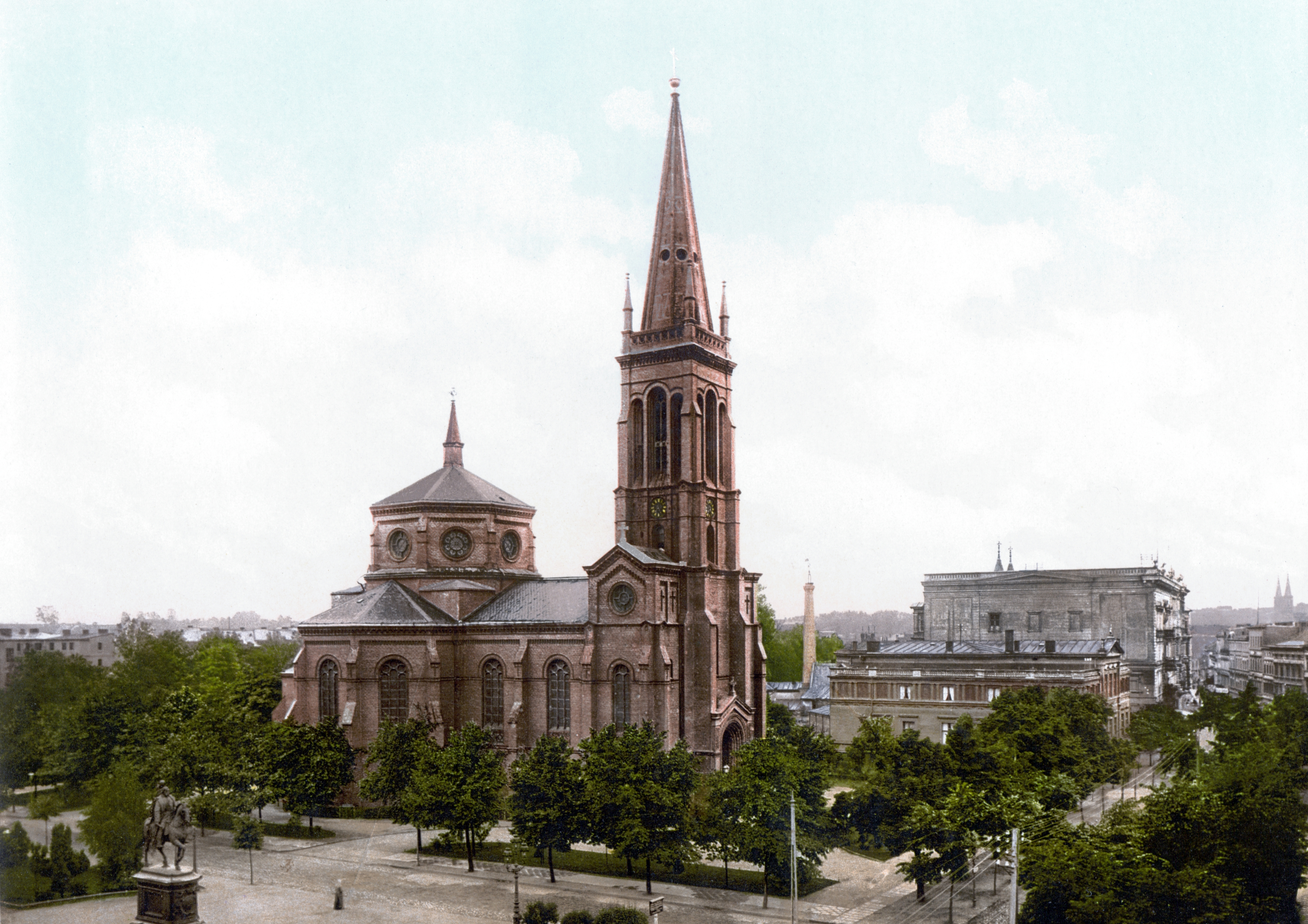 Weltzin Place and St. Paul's Church